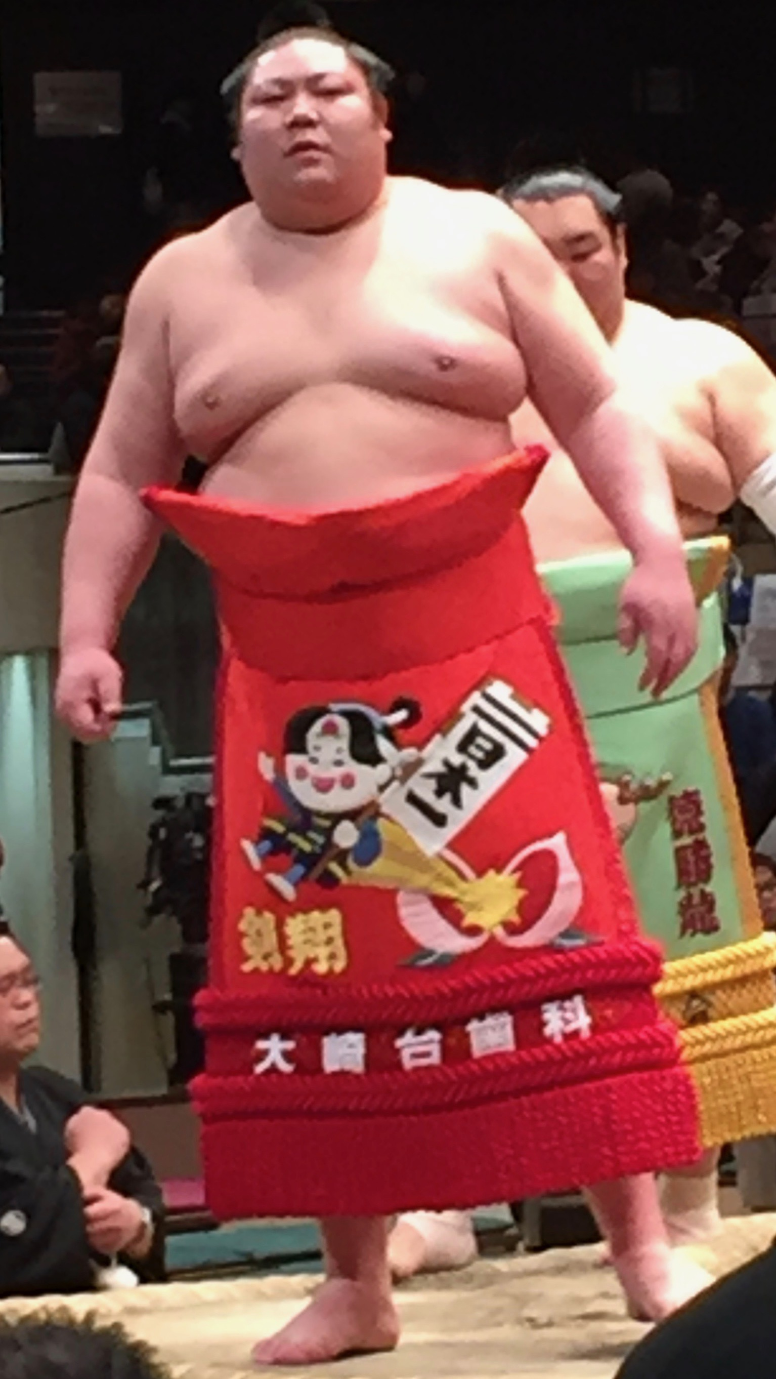 taken at Jan 2017 tournament